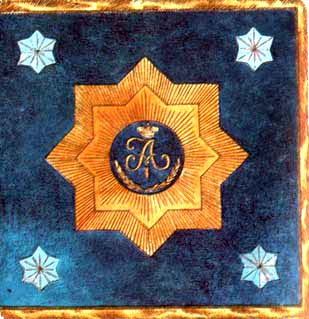 Flag of the 9th Bashkir canton